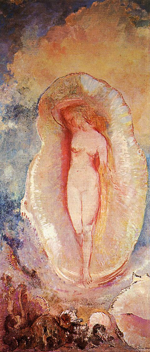 The Birth of Venus